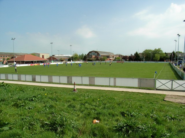 The Airfield